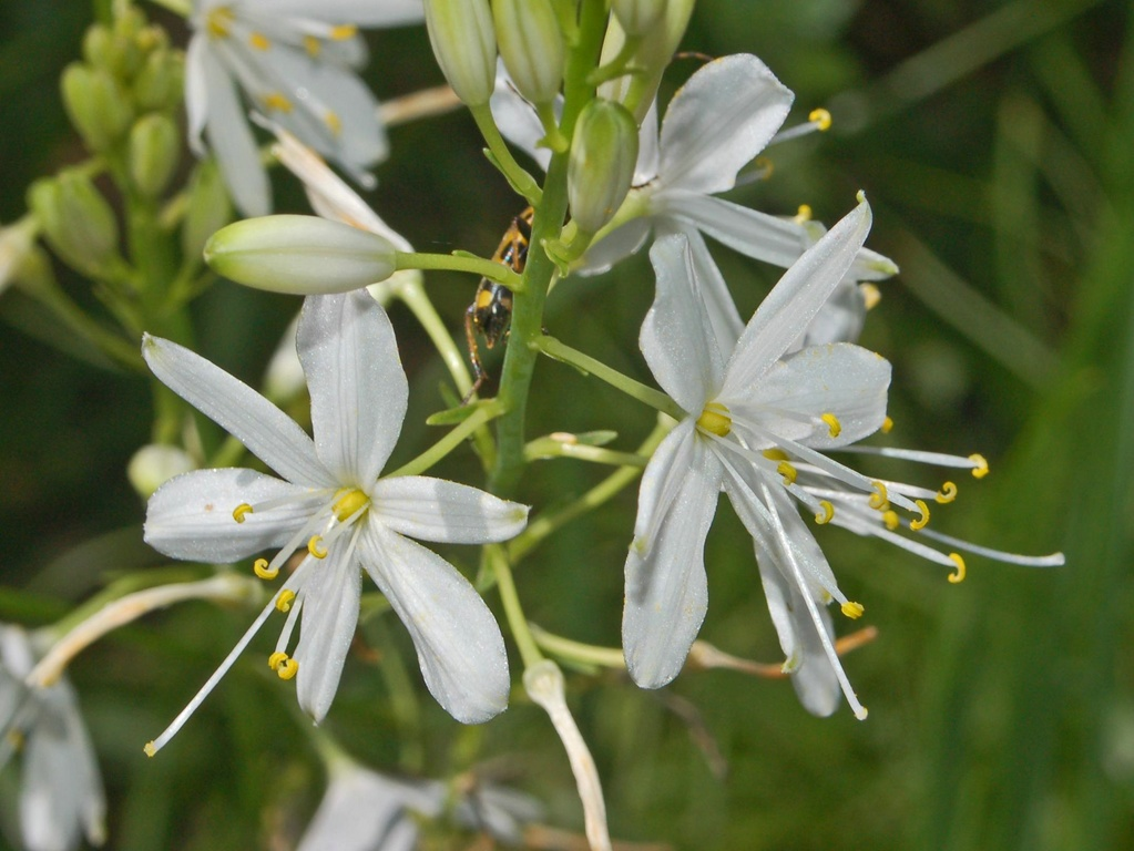 Liliaceae - Anthericum ramosum